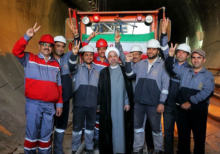 Hassan Rouhani visiting Mshhad Metro.